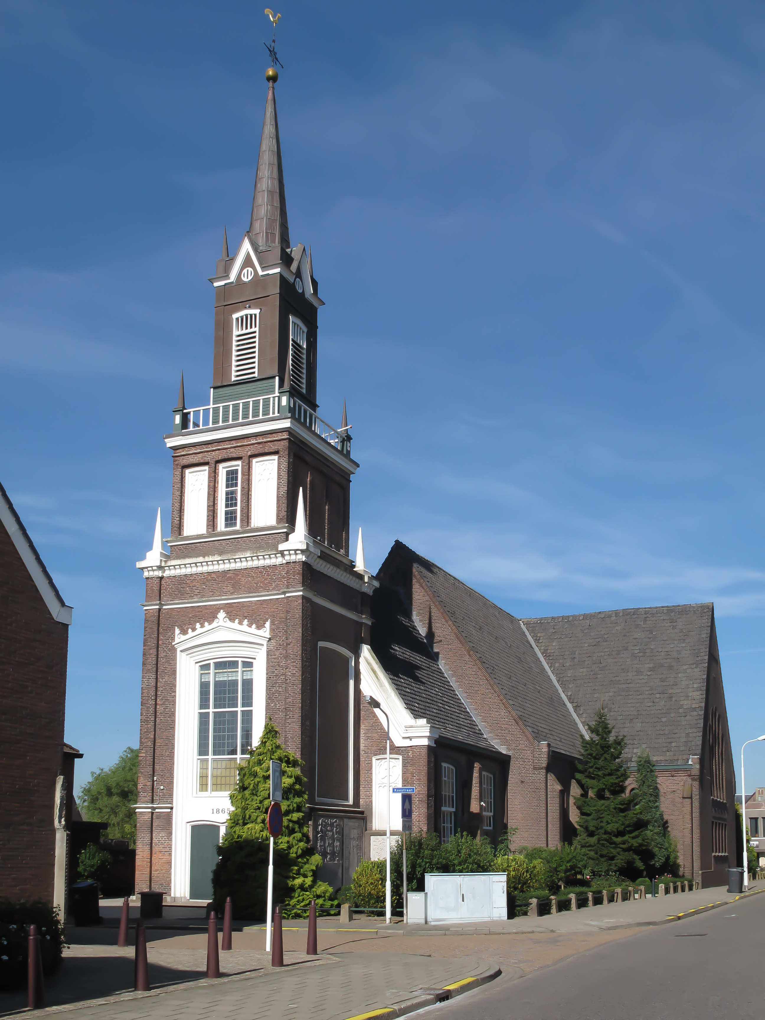 Axel. church